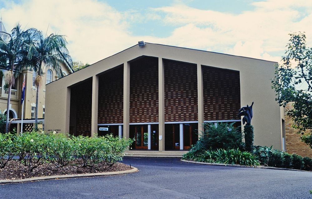 Ipswich Girls' Grammar Assembly Hall